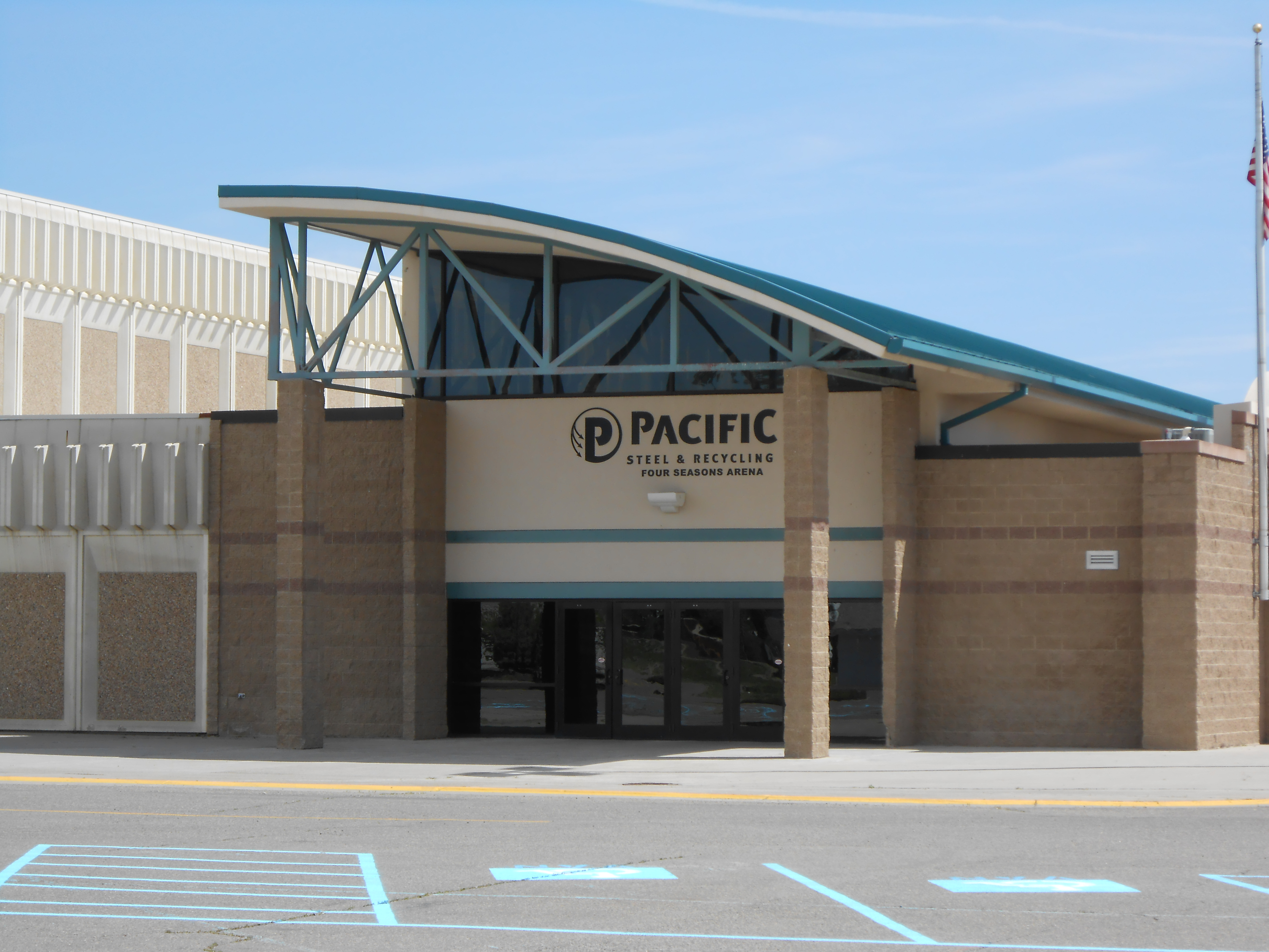 Four Seasons Arena at Fairgrounds at Great Falls, Montana; Montana Expo Park, home of the Montana State Fair.